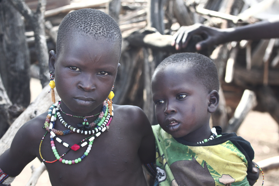 Toposa Children in South Sudan